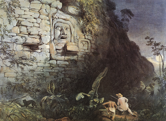 Izamal Yucatan. Lithograph by Frederick Catherwood, from sketches done at Izamal in 1841. Scene of (since destroyed) great stucco face on side of pyramid, and jaguar hunt.